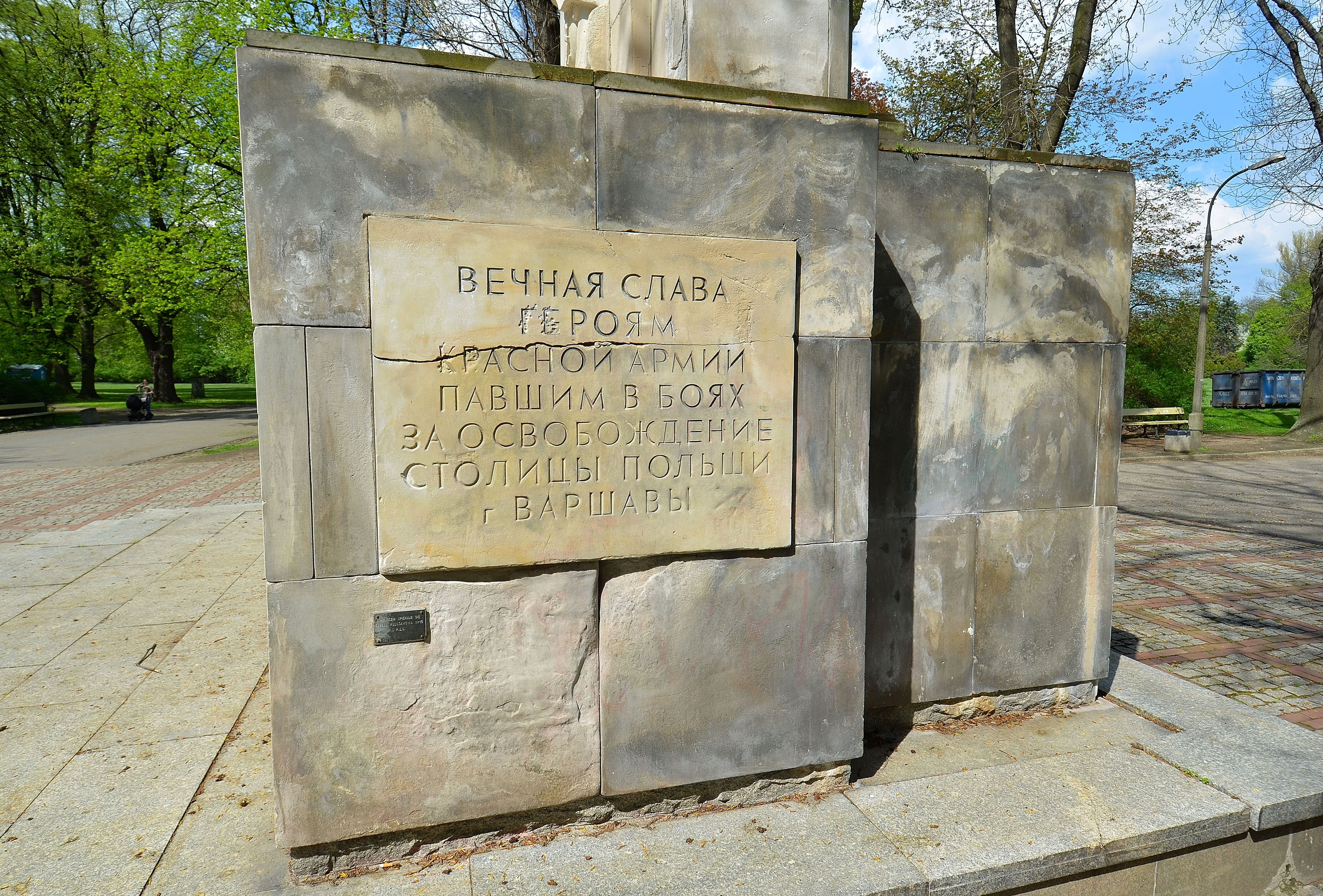 Monument of Gratitude to the Soldiers of the Soviet Army in Skaryszewski Park in Warsaw